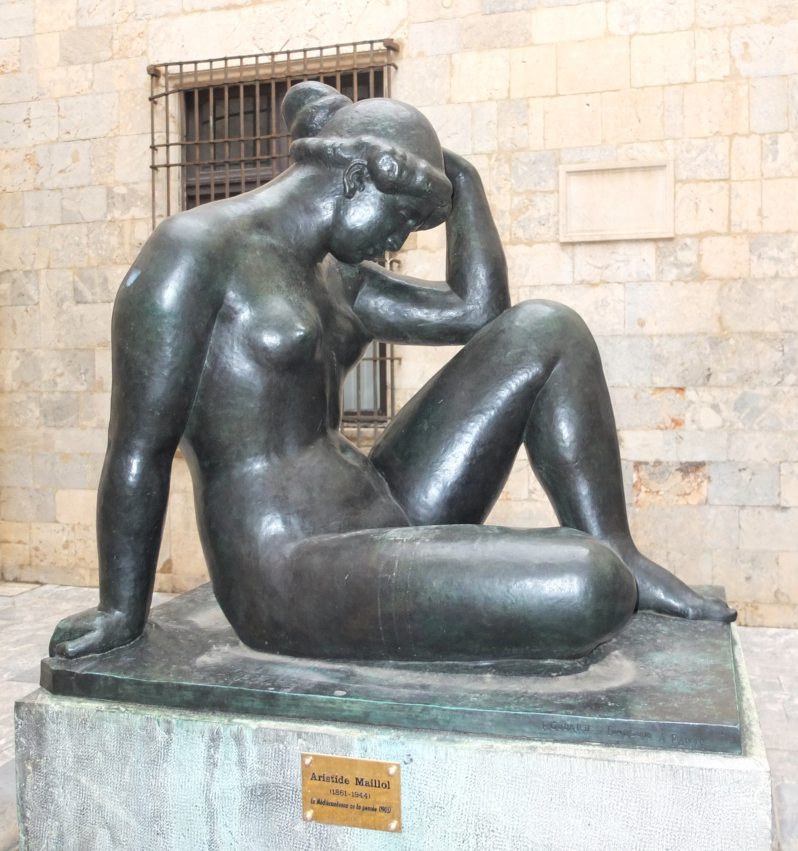 "La Pensée" or "La Méditerranéenne", bronze statue (1905) by Aristide Maillol in the court of the town hall of Perpignan Aristide Maillol (1861–1944) Alternative names Aristide Joseph Bonaventure MaillolDescriptionFrench sculptor, painter, draughtsman and printmakerDate of birth/death 8 December 1861 27 September 1944 Location of birth/death Banyuls-sur-Mer Banyuls-sur-MerWork location Paris (1881-1900), Banyuls-sur-Mer (1893-1944)Authority control : Q153920 VIAF: 14228 ISNI: 0000 0001 0854 4692 ULAN: 500001596 LCCN: n80015568 NLA: 35202089 WorldCat creator QS:P170,Q153920